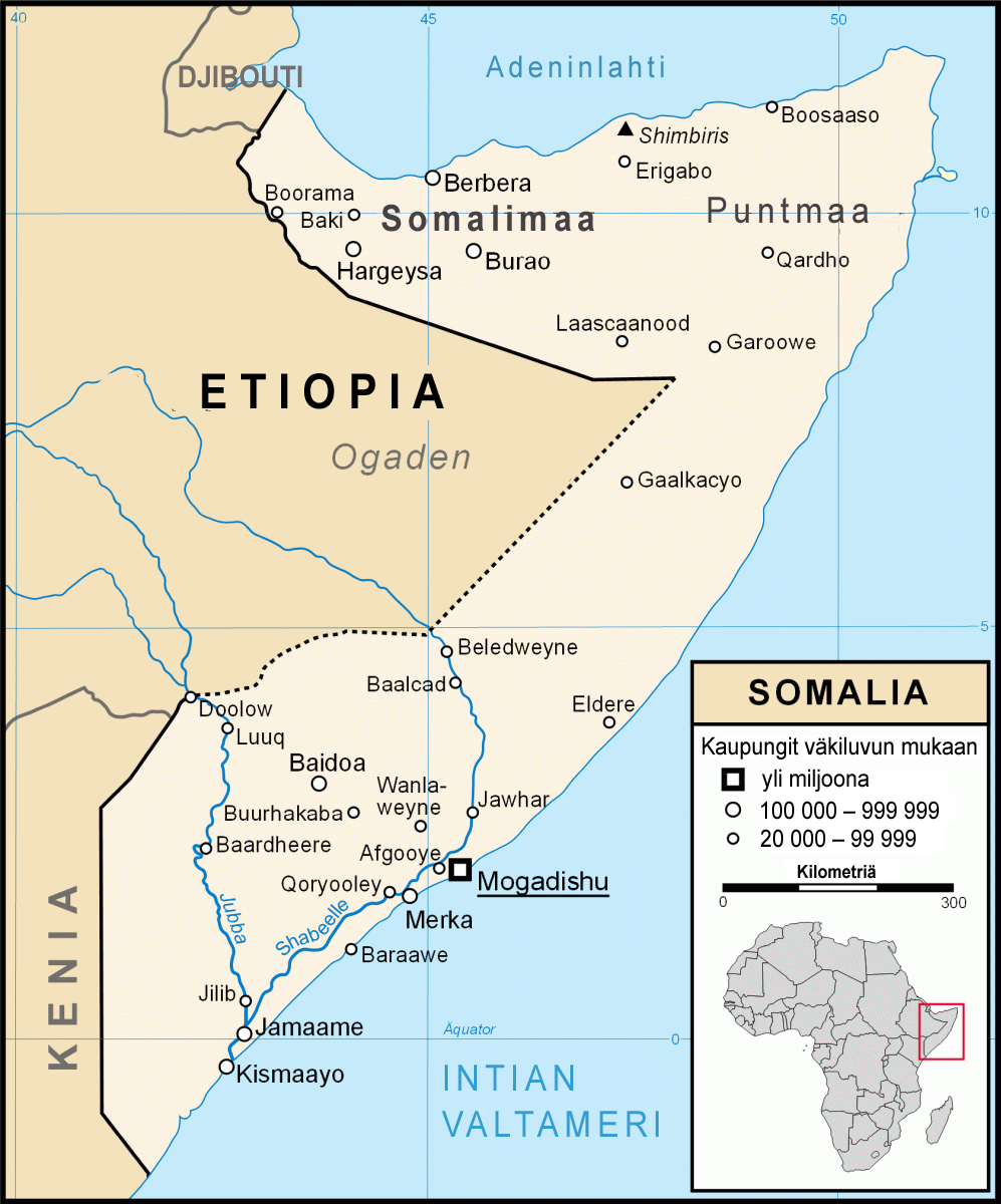 Map of Somalia with cities that have more than 20,000 inhabitants